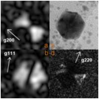 Digital darkfield analyses[1] of lattice-fringe images: (a) darkfield using a 200-periodicity in the lattice image of a Pd icotwin down the 5-fold direction showing the predicted "bowtie", (b) darkfield from the same image using a 111-reflection showing the predicted "butterfly", (c) experimental brightfield image of a randomly-oriented AuPd cluster, and (d) 220-reflection bowtie discovered in a digital darkfield tableau[2] from that image.